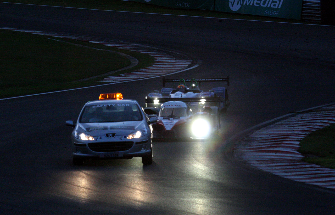 Le Mans Series 2007 Rd.6 Mil Milhas Brasil: Safety car, Peugeot 908 HDi FAP, Pescarolo 01 driven by Harold Primat